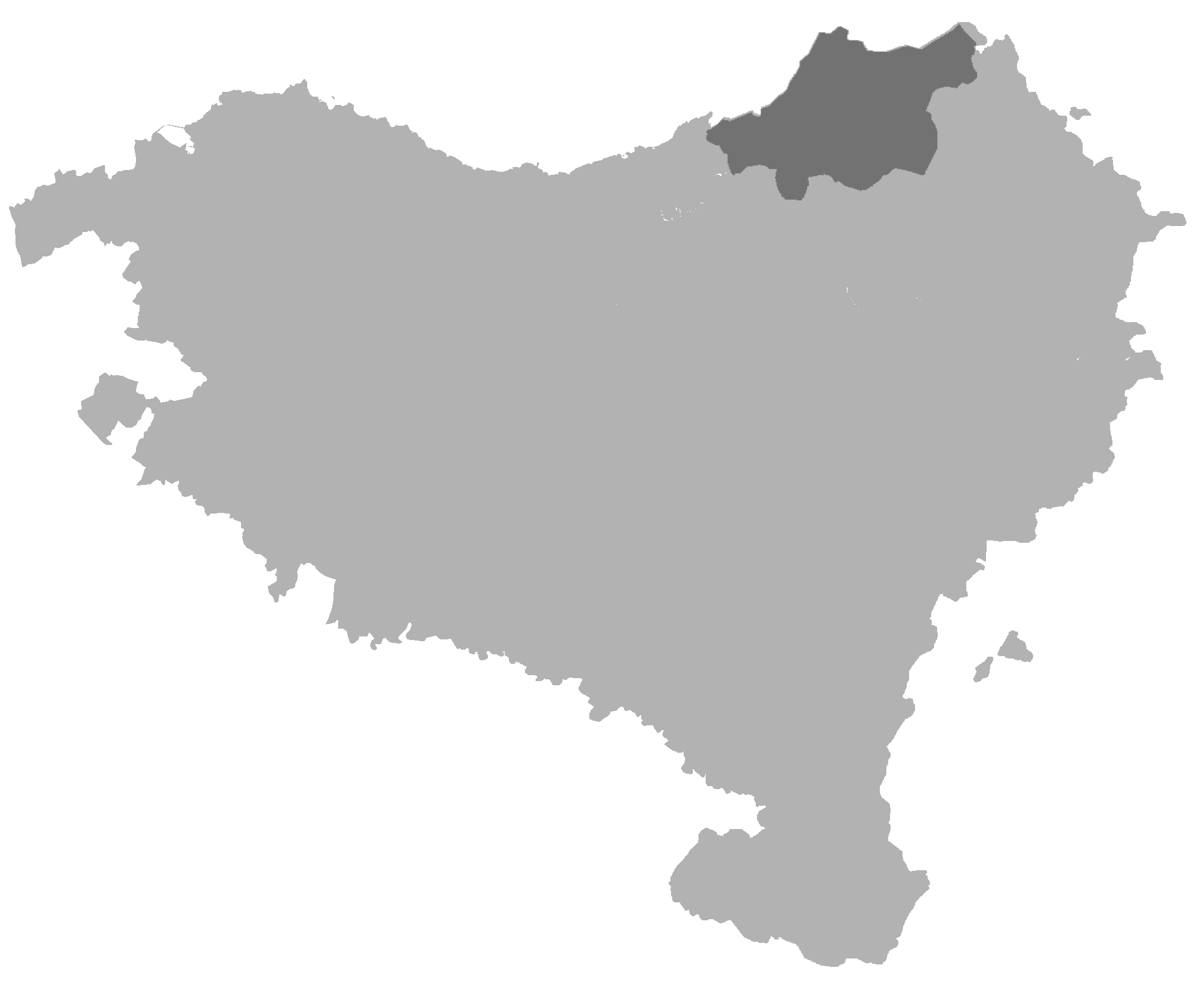 Map depicting situation of Labourd in Euskal Herria.